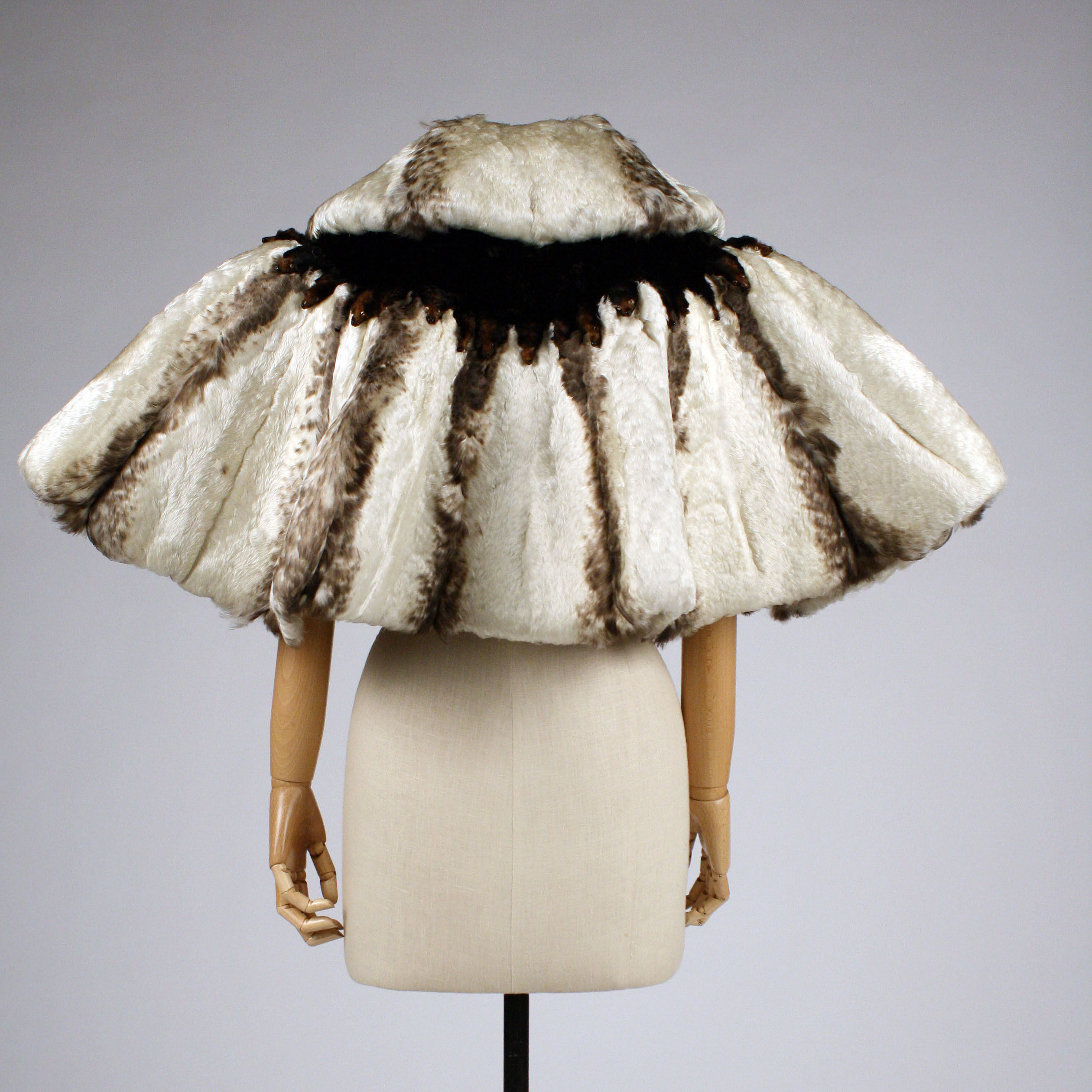 American; Ensemble